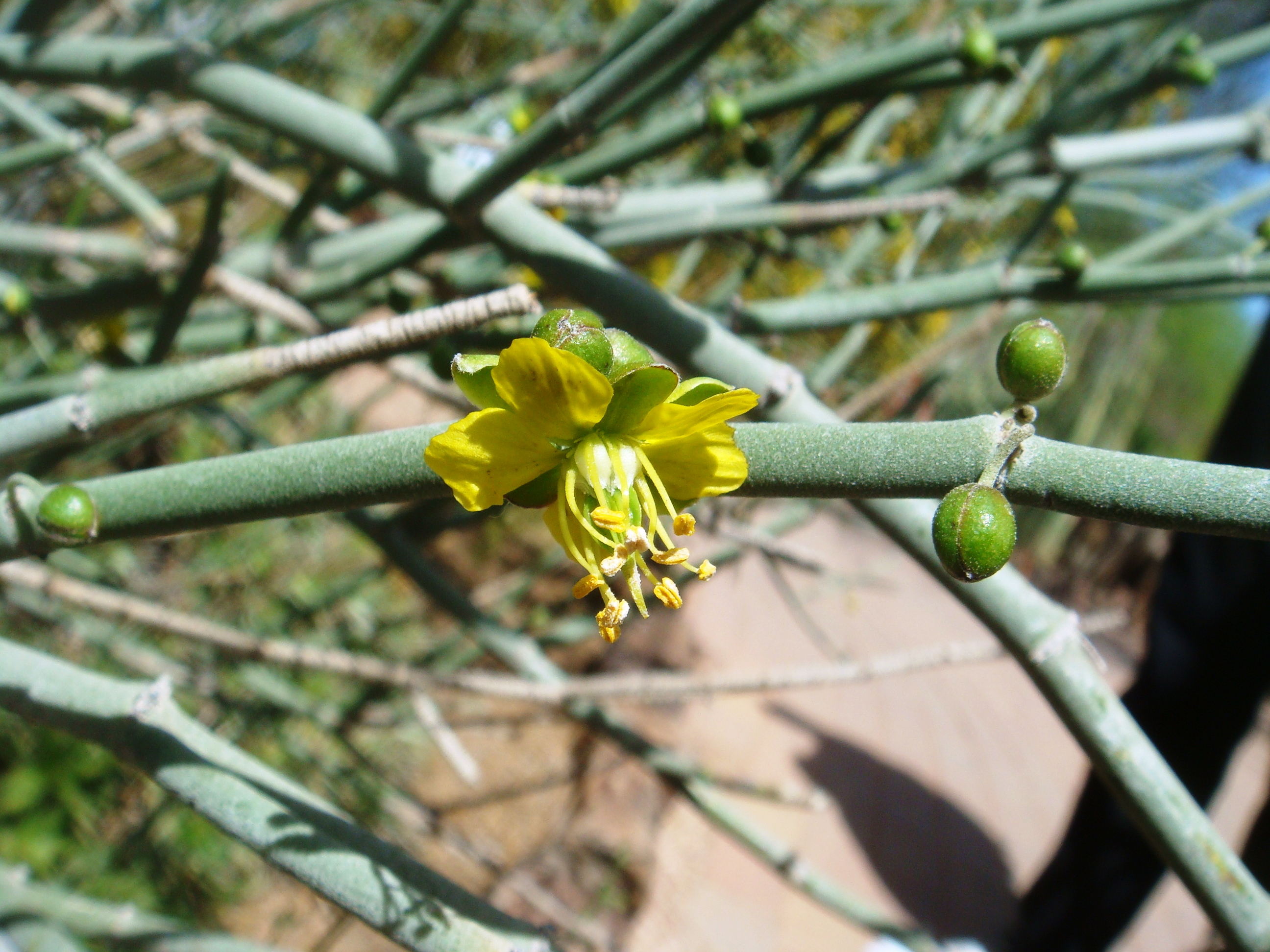 Bulnesia retama, cultivated, Desert Botanical Garden, Phoenix, Arizona